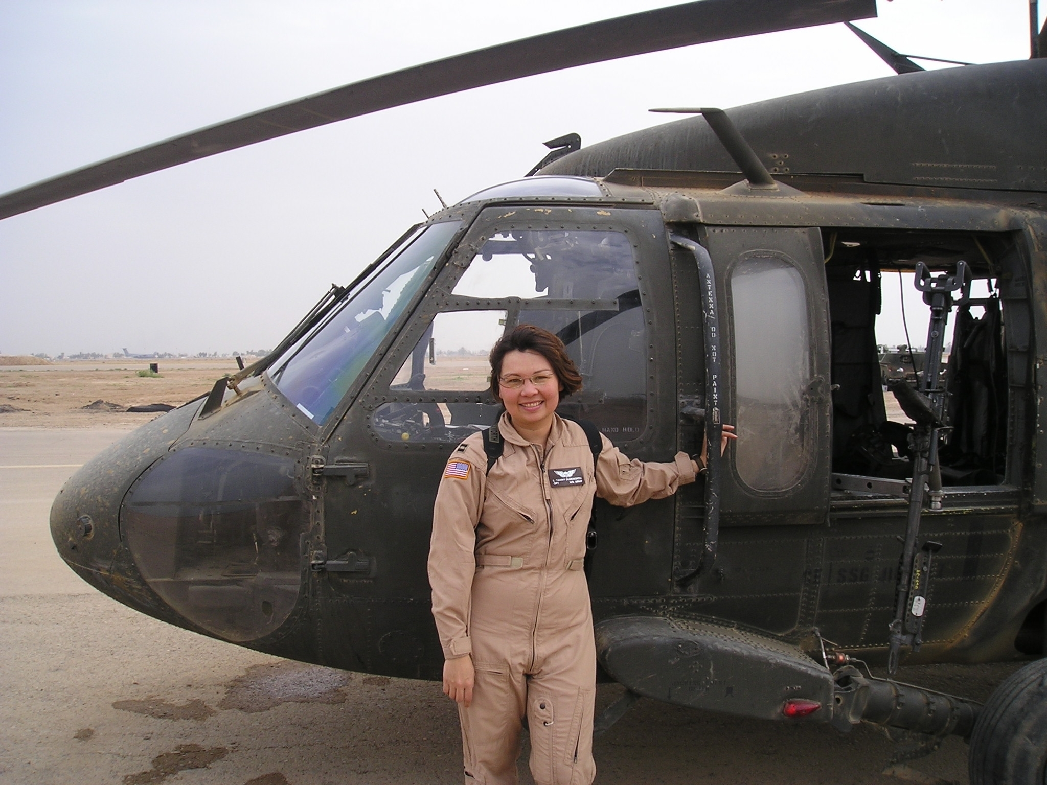 Then a captain in the Illinois Army National Guard, Tammy Duckworth stands by her UH-60 Blackhawk helicopter. Now a U.S. senator, Duckworth would spend 23 years in the Illinois Army National Guard retiring as a lieutenant colonel. Her helicopter was hit by a rocket-propelled grenade on Nov. 12, 2004. Duckworth lost both legs and partial use of her right arm in the explosion and received a Purple Heart for her combat injuries. She returned to Iraq in April 2019 visiting with Illinois Army National Guard Soldiers from the 108th Sustainment Brigade who are deployed there. (Submitted Photo)